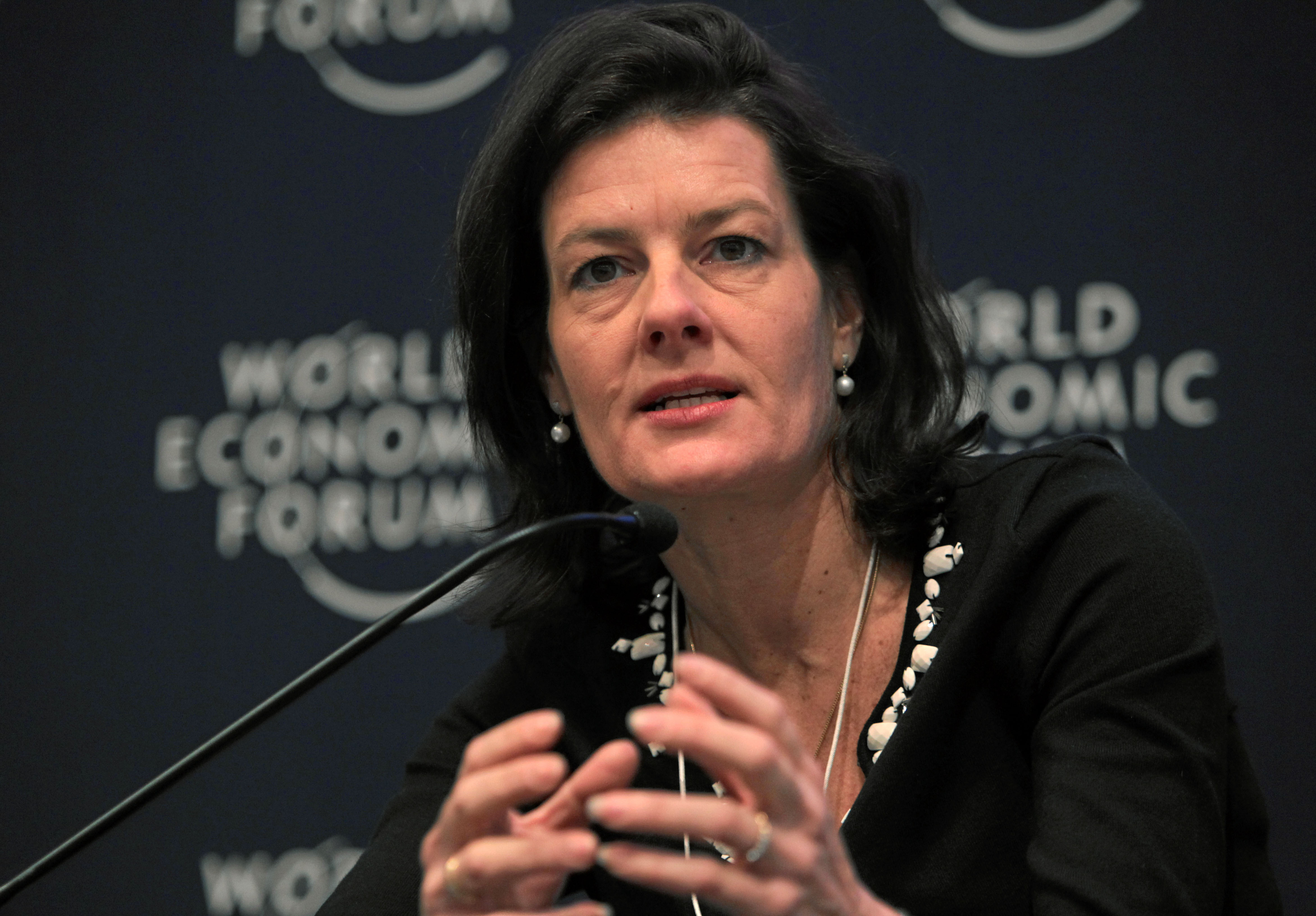 DAVOS/SWITZERLAND, 30JAN11 - Ngaire Woods, Professor of International Political Economy, University of Oxford, United Kingdom; Global Agenda Council on Institutional Governance Systems is captured during the session 'The Davos Debrief: Policy Priorities' at the Annual Meeting 2011 of the World Economic Forum in Davos, Switzerland, January 30, 2011. Copyright by World Economic Forum by Sebastian Derungs